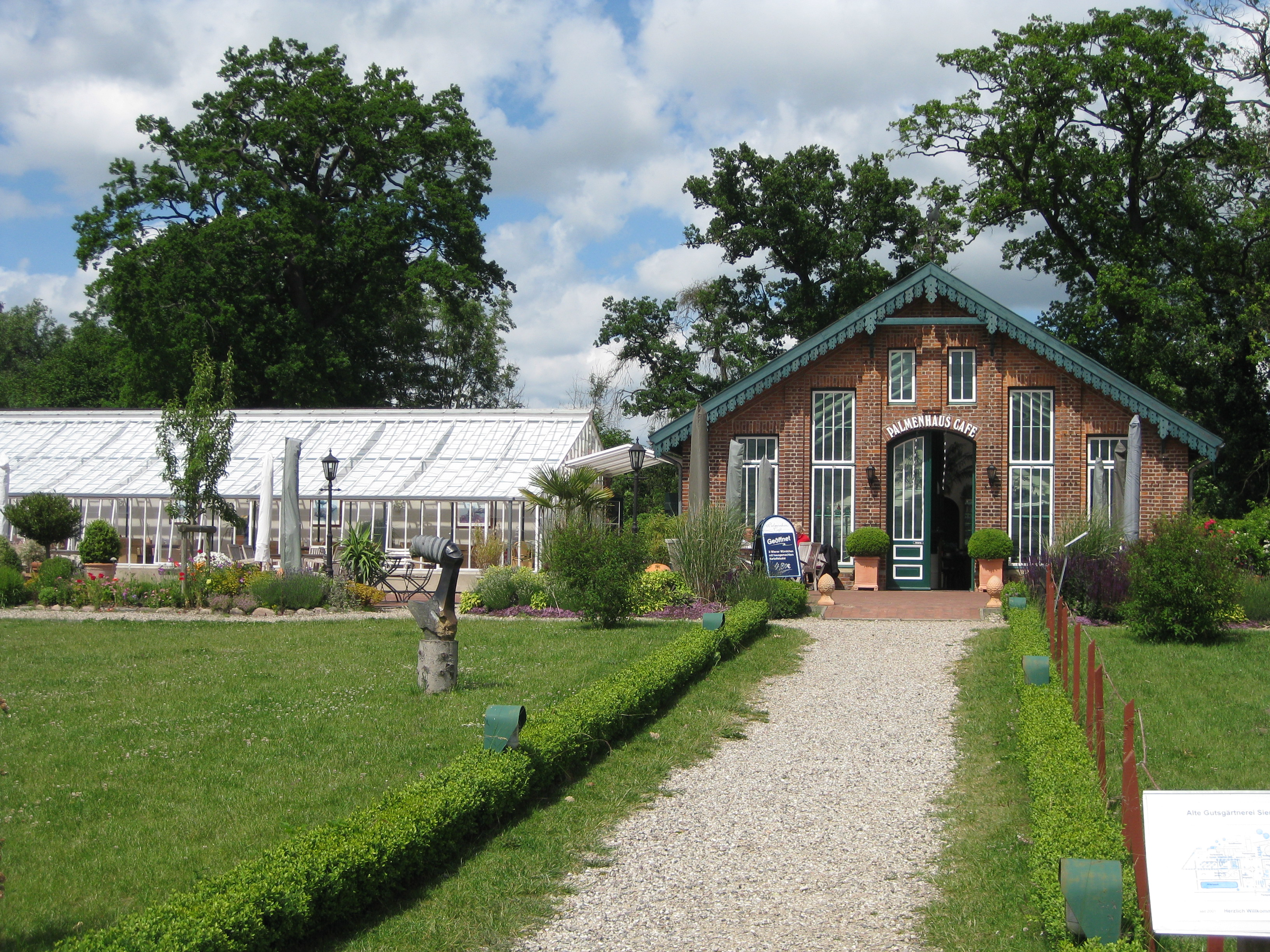 Old palm house of Sierhagen manor, now a cafe, with old greenhouses, used by Sierhagen plant nursery.